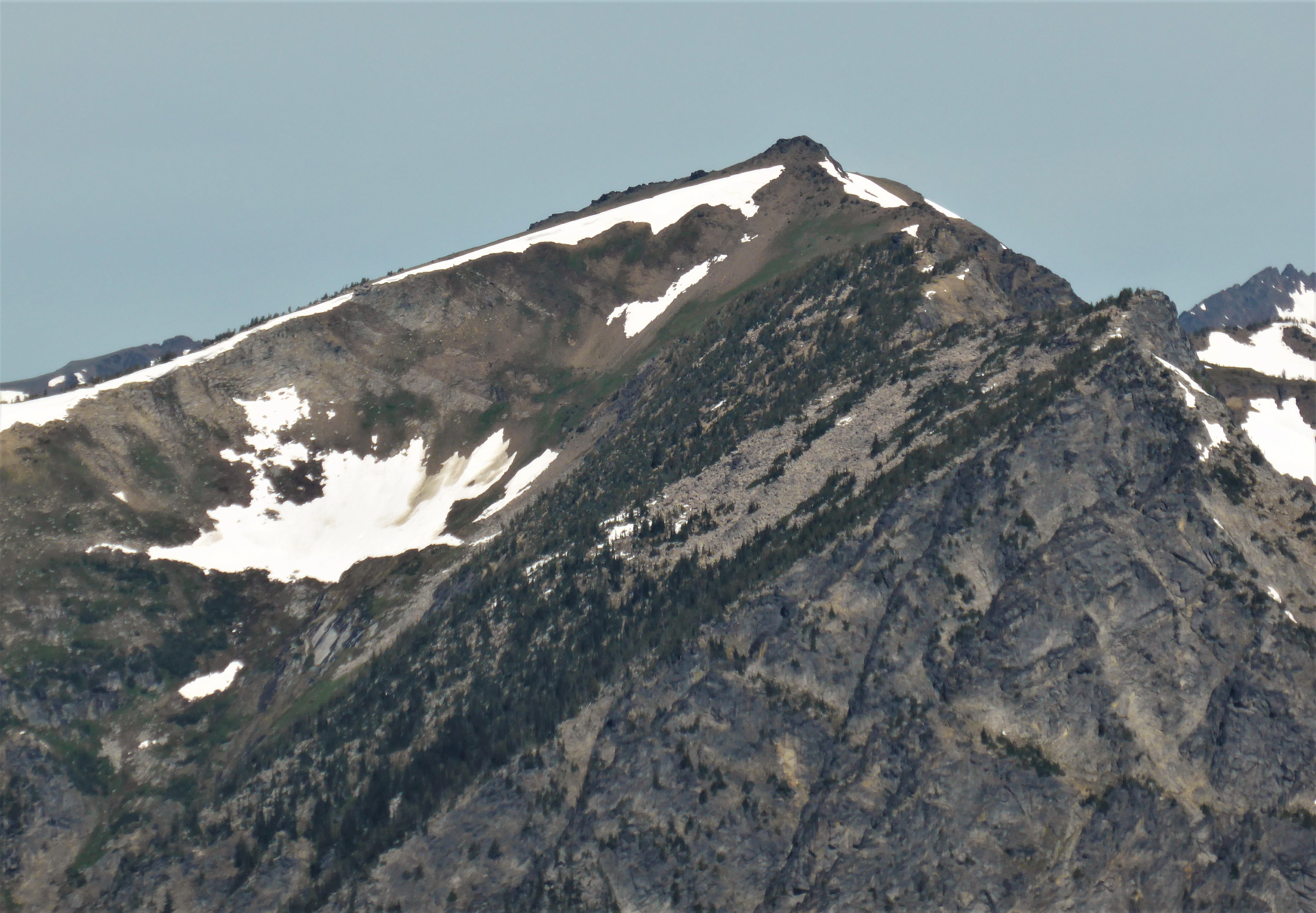 Point 7763, southeast subsidiary peak of Big Lou Mountain